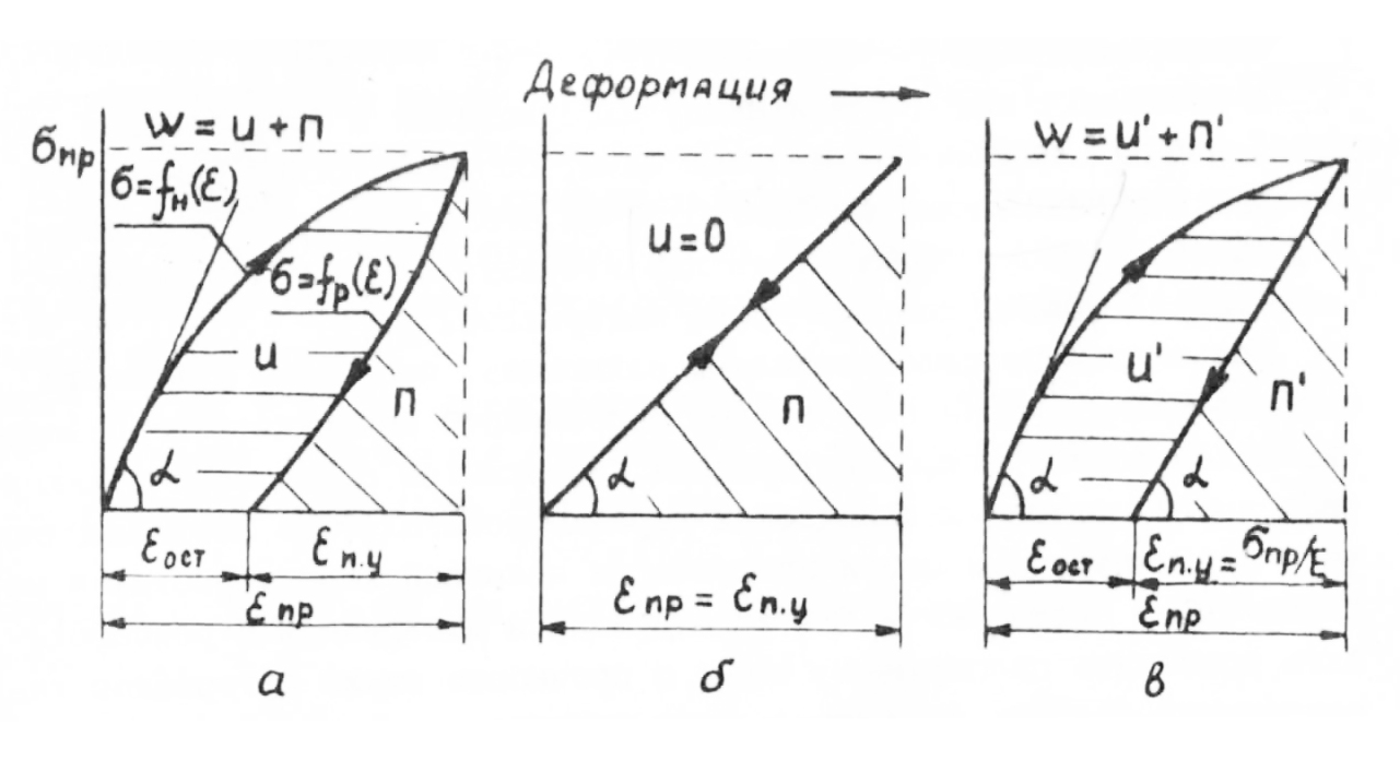 brittleness of ceramics and fracture resistance materials